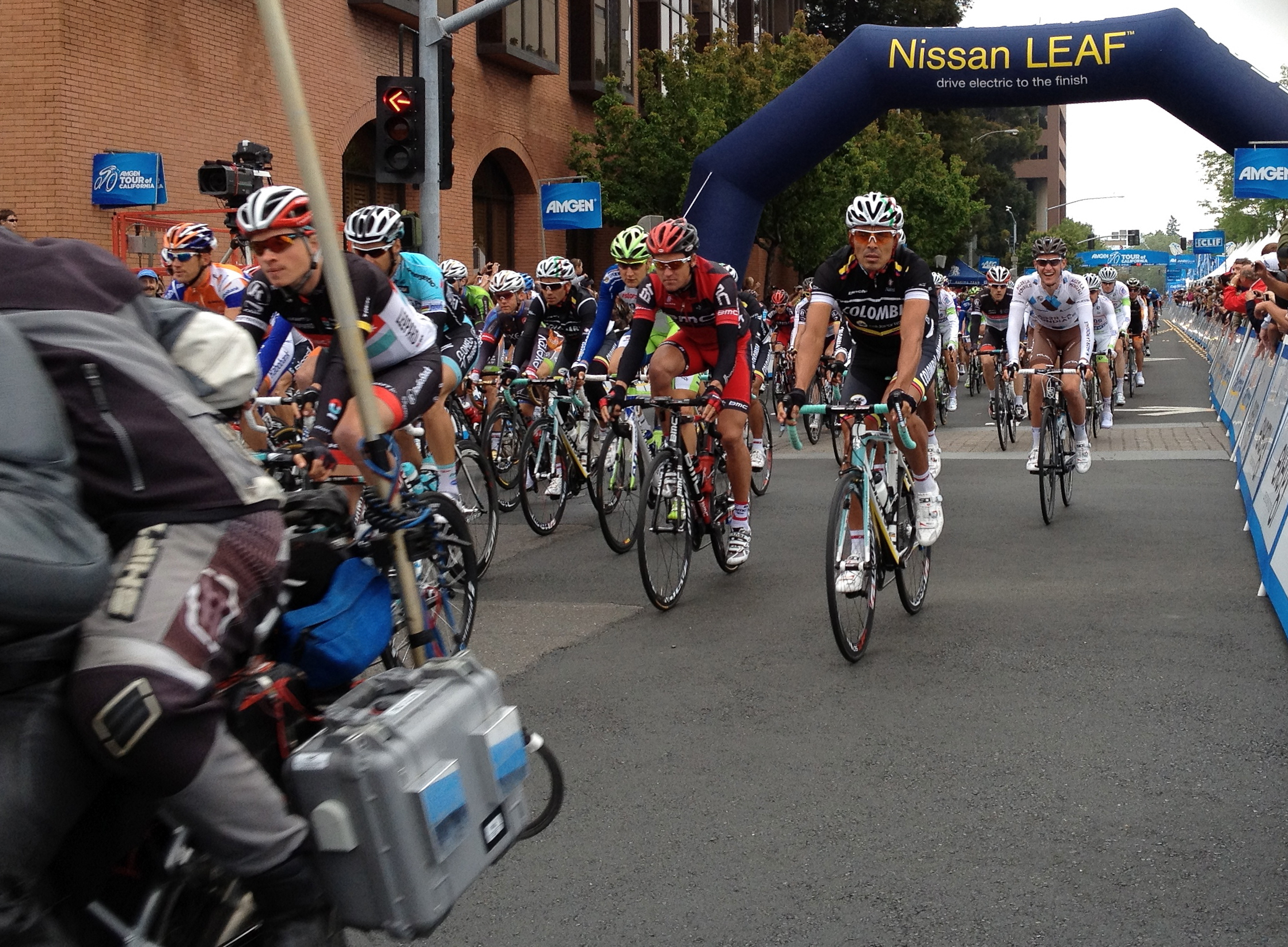 Peloton of the Amgen Tour of California, Santa Rosa, May 13th, 2012, minutes before the race started.